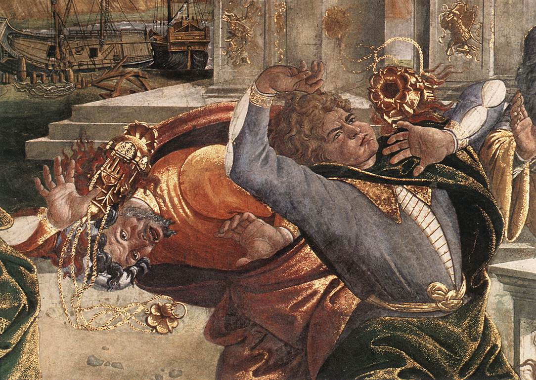 The Punishment of Korah (detail 3)